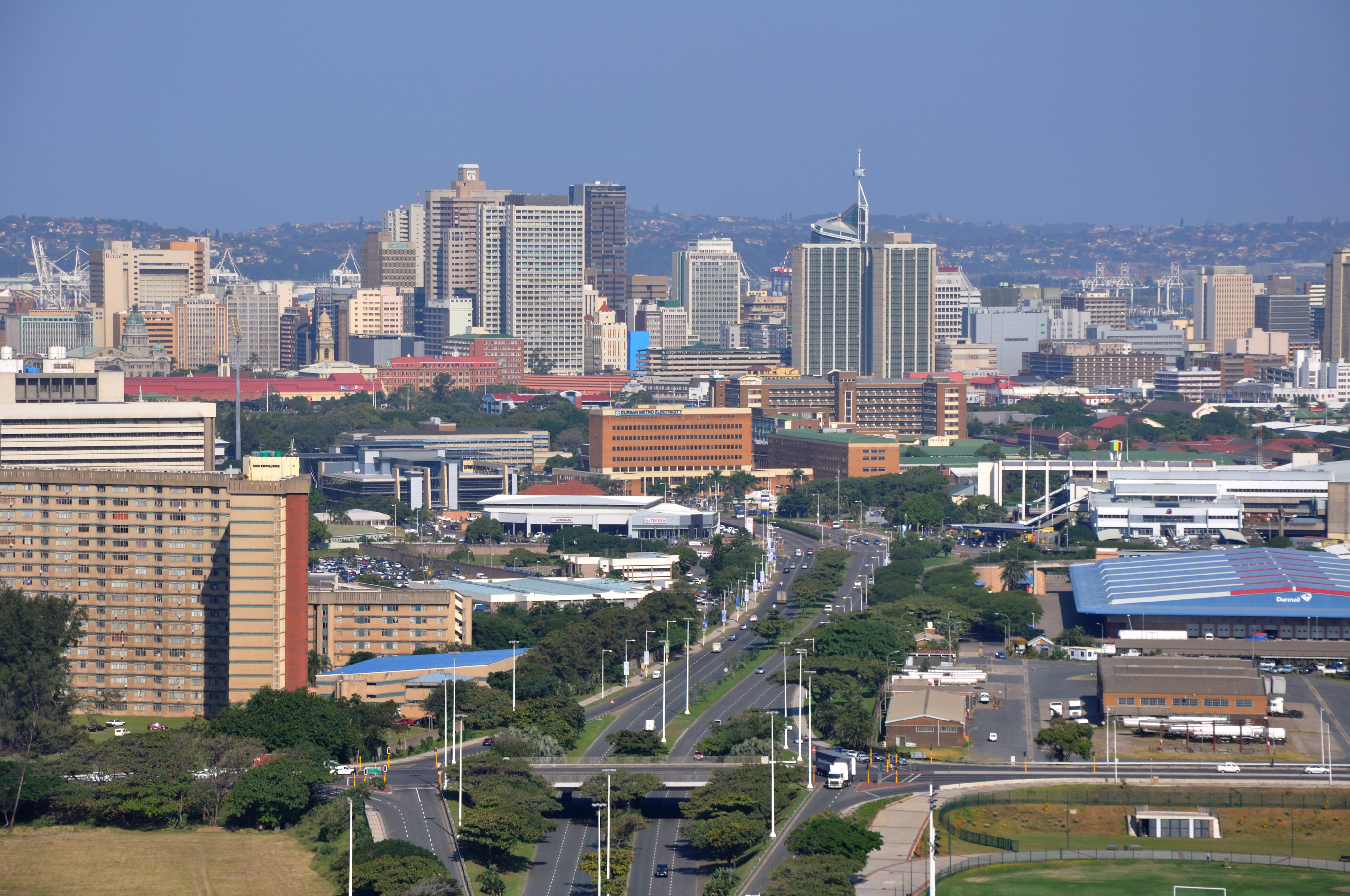 Southward view from the 106m high platform on the arch of the Moses Mabhida Stadium in Stamford Hill suburb, looking along the M12 route towards the business district of Durban Central, South Africa. It takes the single cabin SkyCar two minutes to ride the steel track to the top, and it can descend to the lower station using its own weight in the event of a power outage.[1] The suburb of Stamford Hill occupies the foreground, flanking the M12, Durban Central lies behind with some container cranes of Bayhead also visible, while the Bluff forms the backdrop.